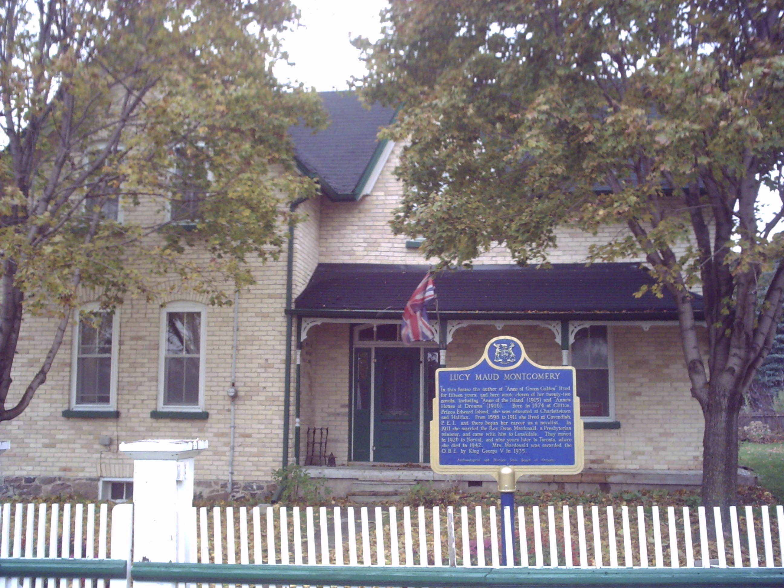 Leaskdale Manse in Uxbridge, Ontario, Canada. The home of Lucy Maud Montgomery when she wrote 11 of the 22 works published during her lifetime, and the house and its immediate area figure prominently in her posthumously published journals. Designated a National Historic Site of Canada in 1996.